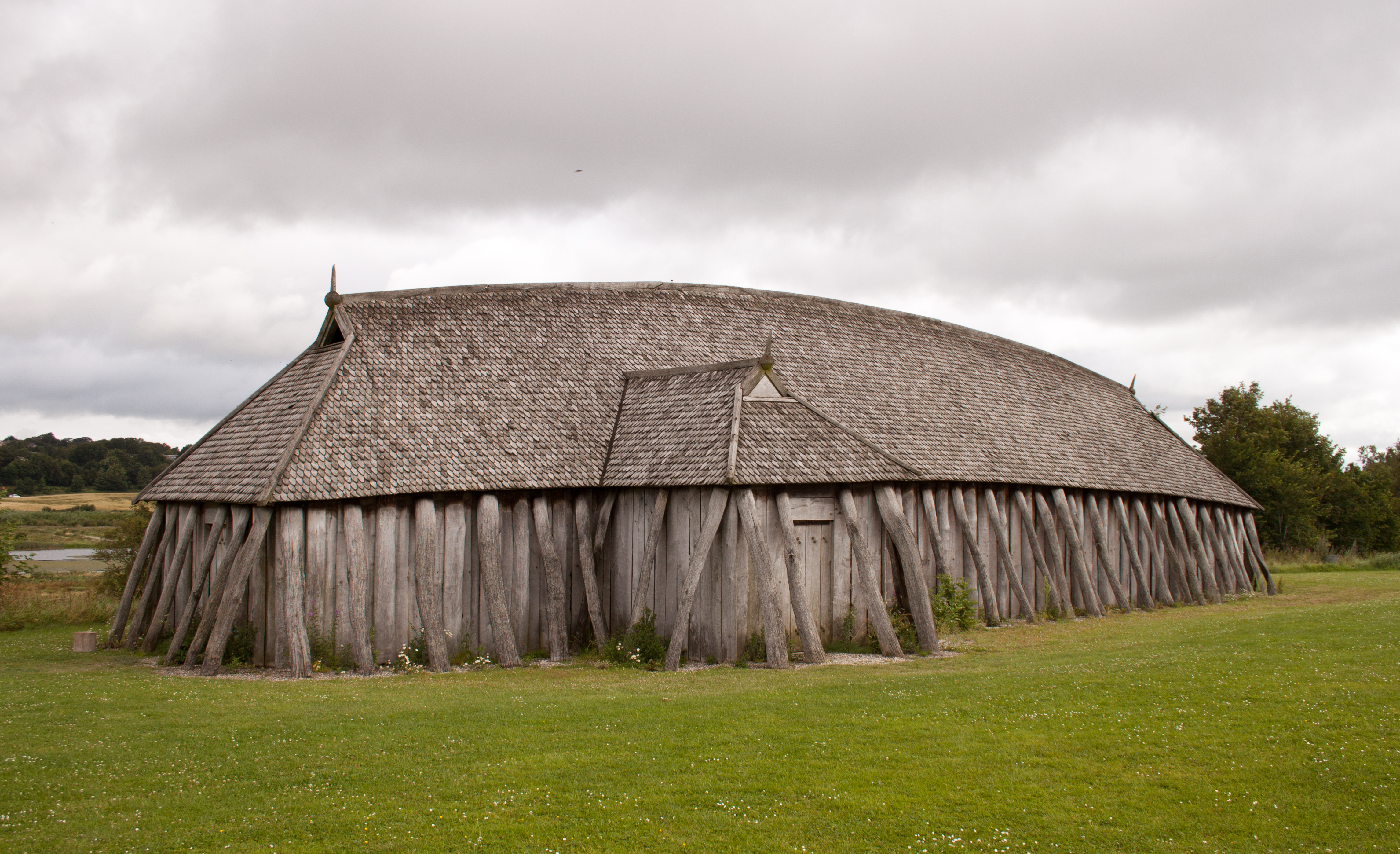 Reconstruction of a viking house in Fyrkat